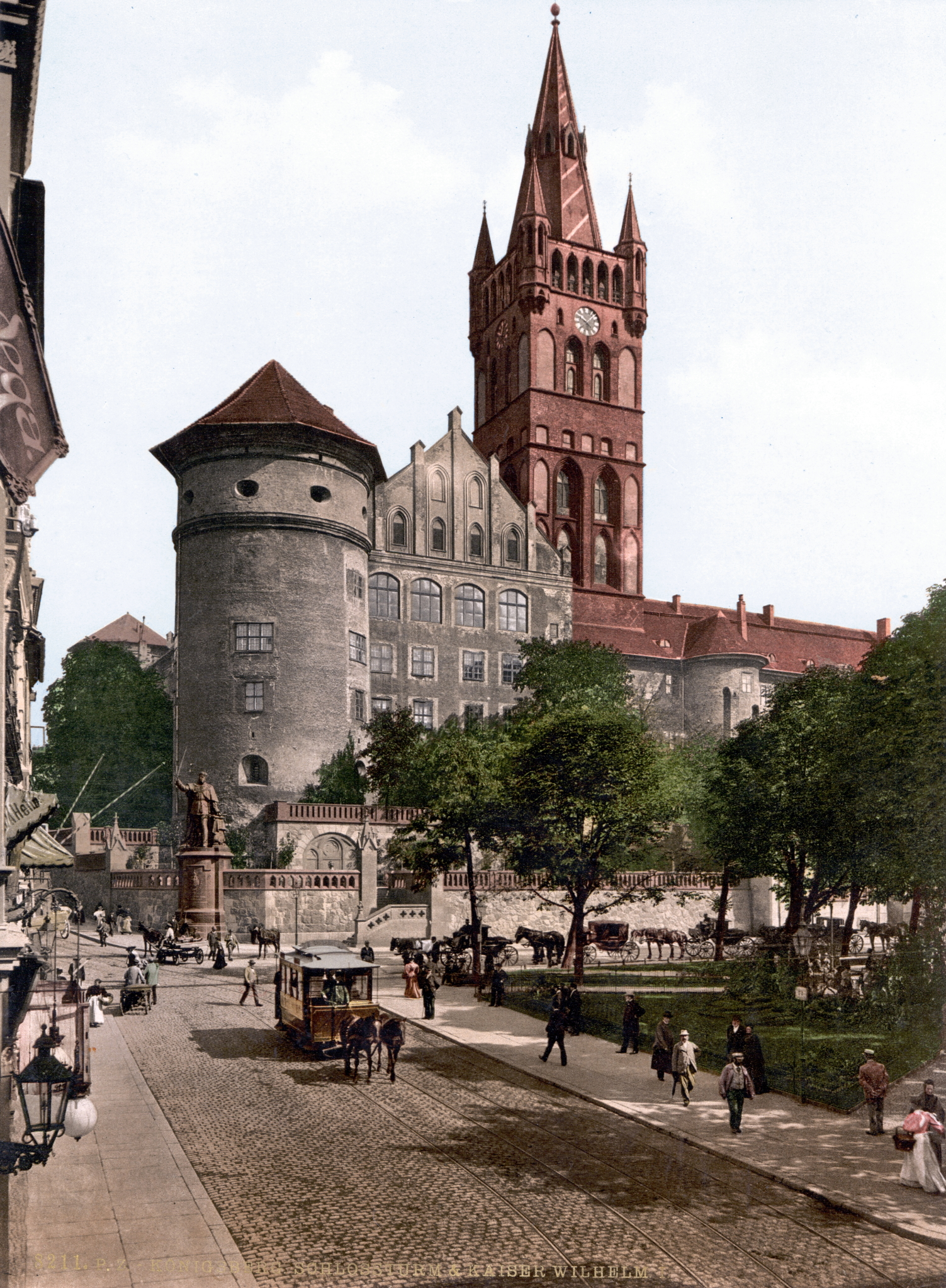 Königsberg Castle and Monument for the german Emperor William I., Kaliningrad, Russia